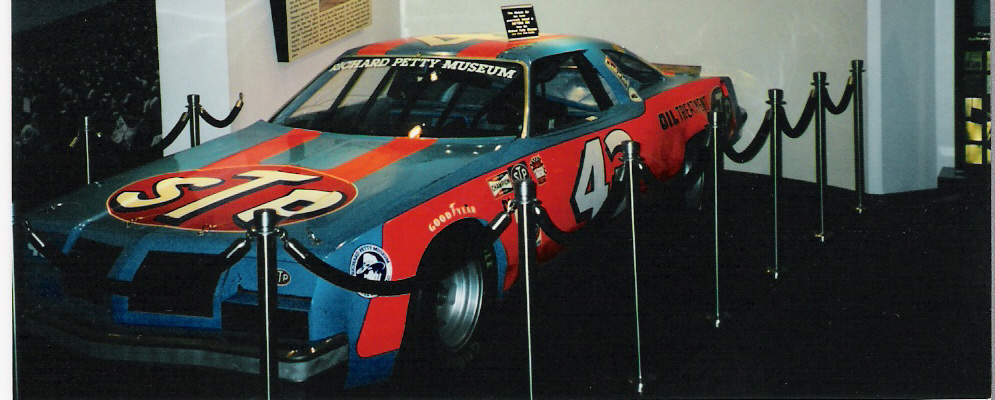 I took this pic myself. I relinquish all rights. The photo was taken in January 2001 at Daytona USA. Richard Petty drove the car to his 186th career NASCAR victory, at the 1979 Daytona 500. This is not the car that Petty drove in 1984. This is the 1979 car that Petty drove to win the 1979 Daytona 500. The 1984 car is a Pontiac Grand Prix. This is not the car that Richard Petty won the 1979 Daytona 500 in. This is a show car built by Petty Enterprises to commemorate Richard Petty's 1979 Championship. The 1979 Daytona 500 winning car had no stripes or logos on the top surfaces but was totally Petty Blue.